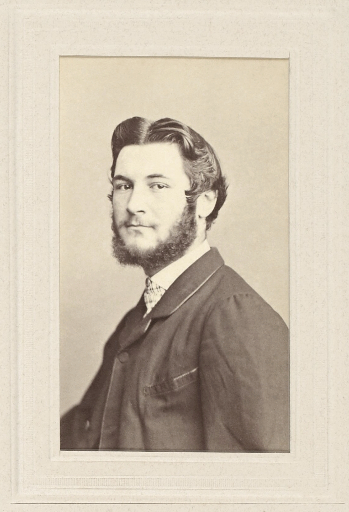 Julius von Blaas (1845-1923), italian painter (of austrian descent).